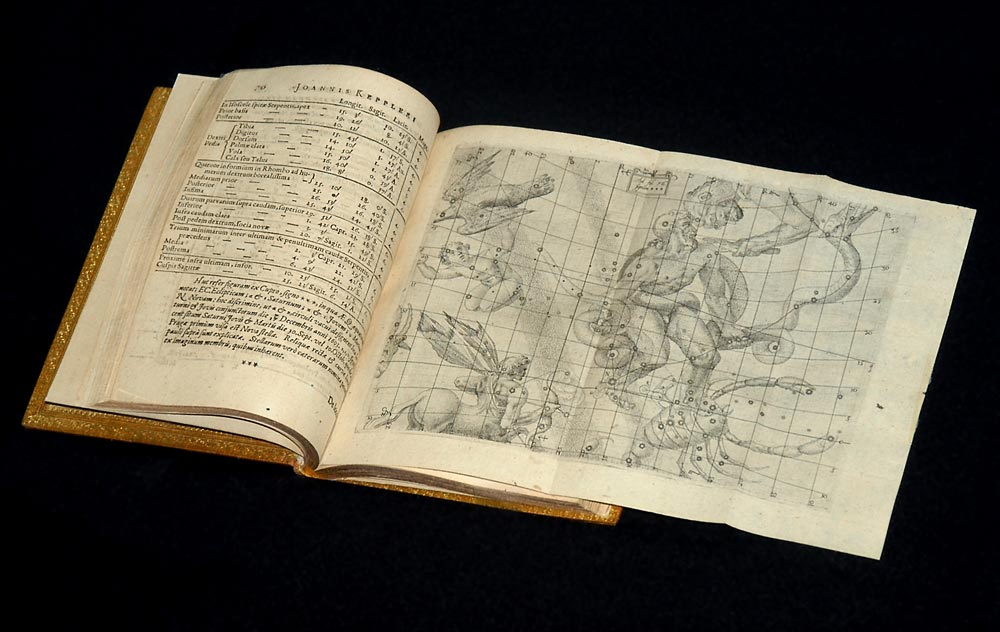 Johannes Kepler's De Stella Nova (1604), open to the foldout starmap placing the supernova of 1604 in context.